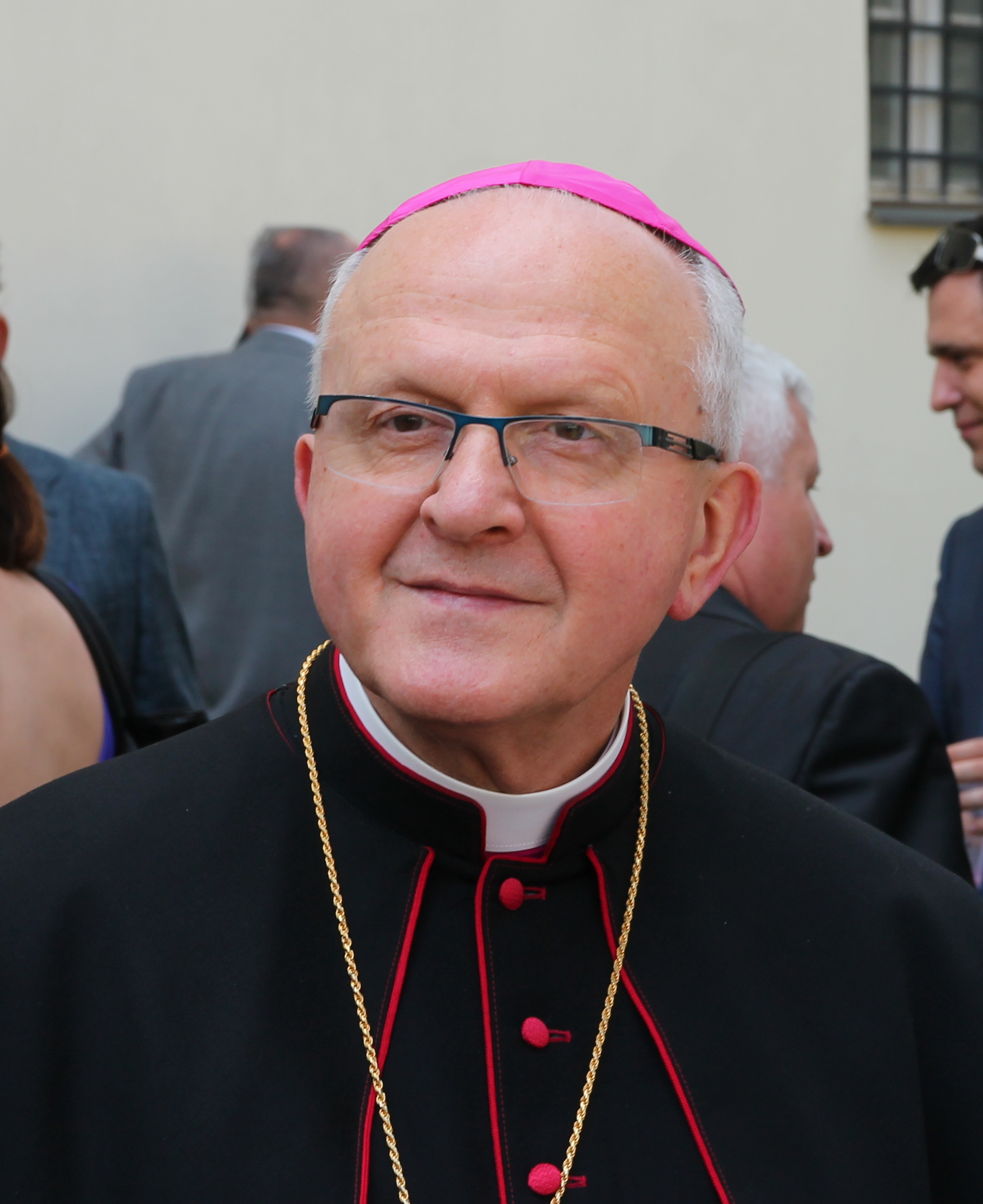 Jan Baxant during the episcopal ordination of Zdenek Wasserbauer held on May 19th, 2018, Prague